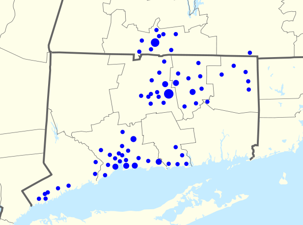 Footprint of NewAlliance Bank branches within the United States. Zip codes with more than one branch have progressively larger points.